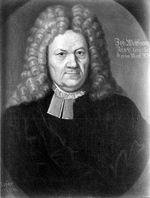 Johann Wolfgang Jäger (1647-1720)